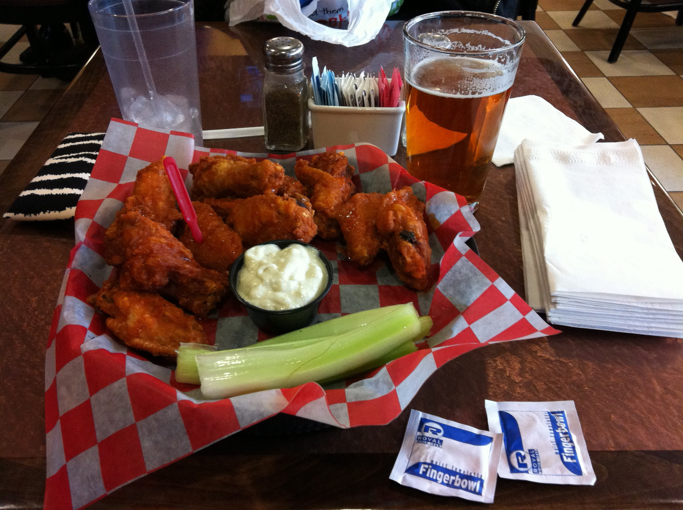 Buffalo Wings - Hot!, Chicken wings at Anchor Bar in Buffalo-Niagara Airport. Location: Buffalo Cuisine: the United States